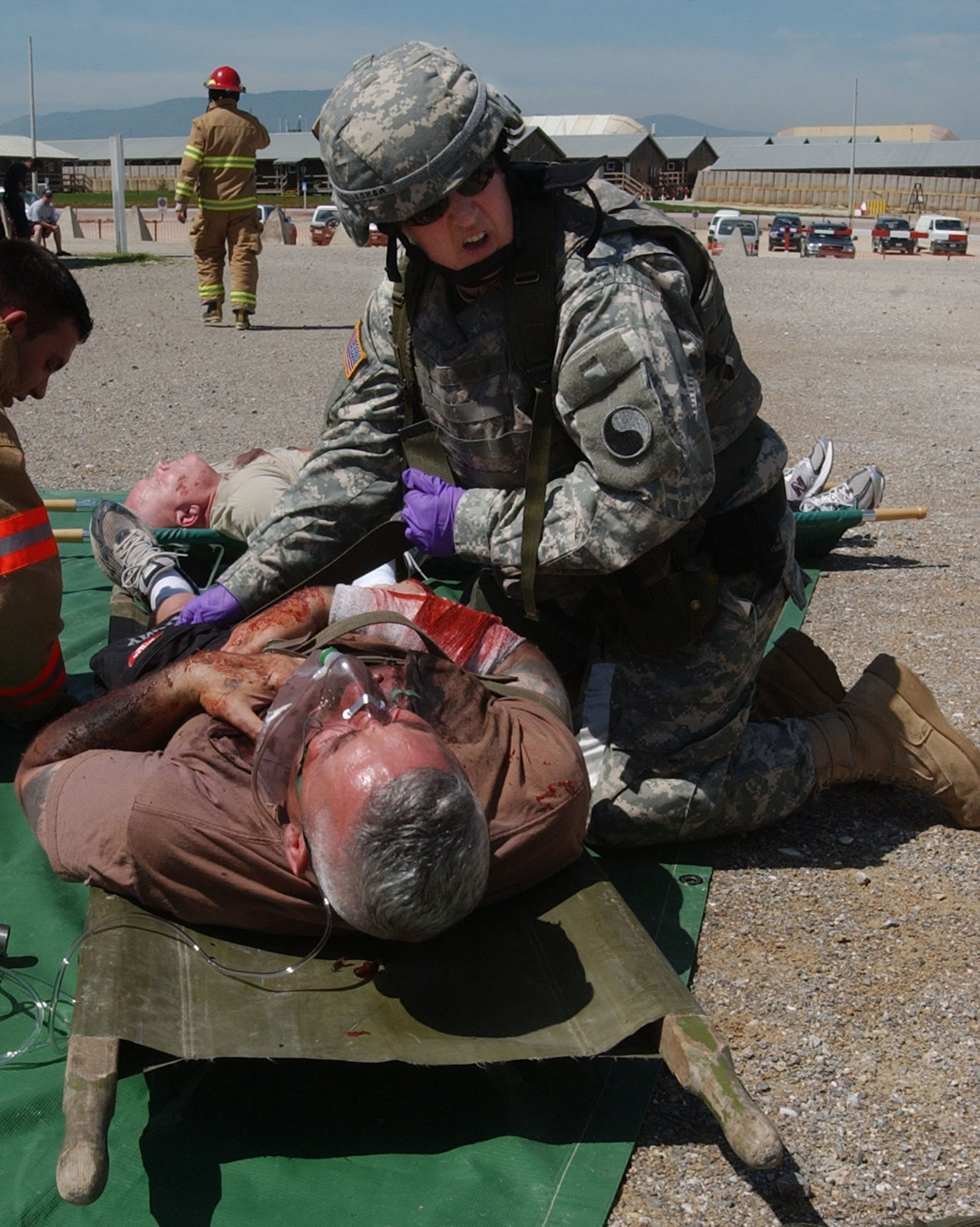 Sgt. Carolyn Gallagher, a reservist attached to the US 29th infantry Division, yells for help during a mass casualty exercise at Camp Bondsteel, Kosovo May 9. The exercise tested Soldiers’ and Kellogg Brown and Root (KBR) fire fighters’ ability to react to an attack against the base.